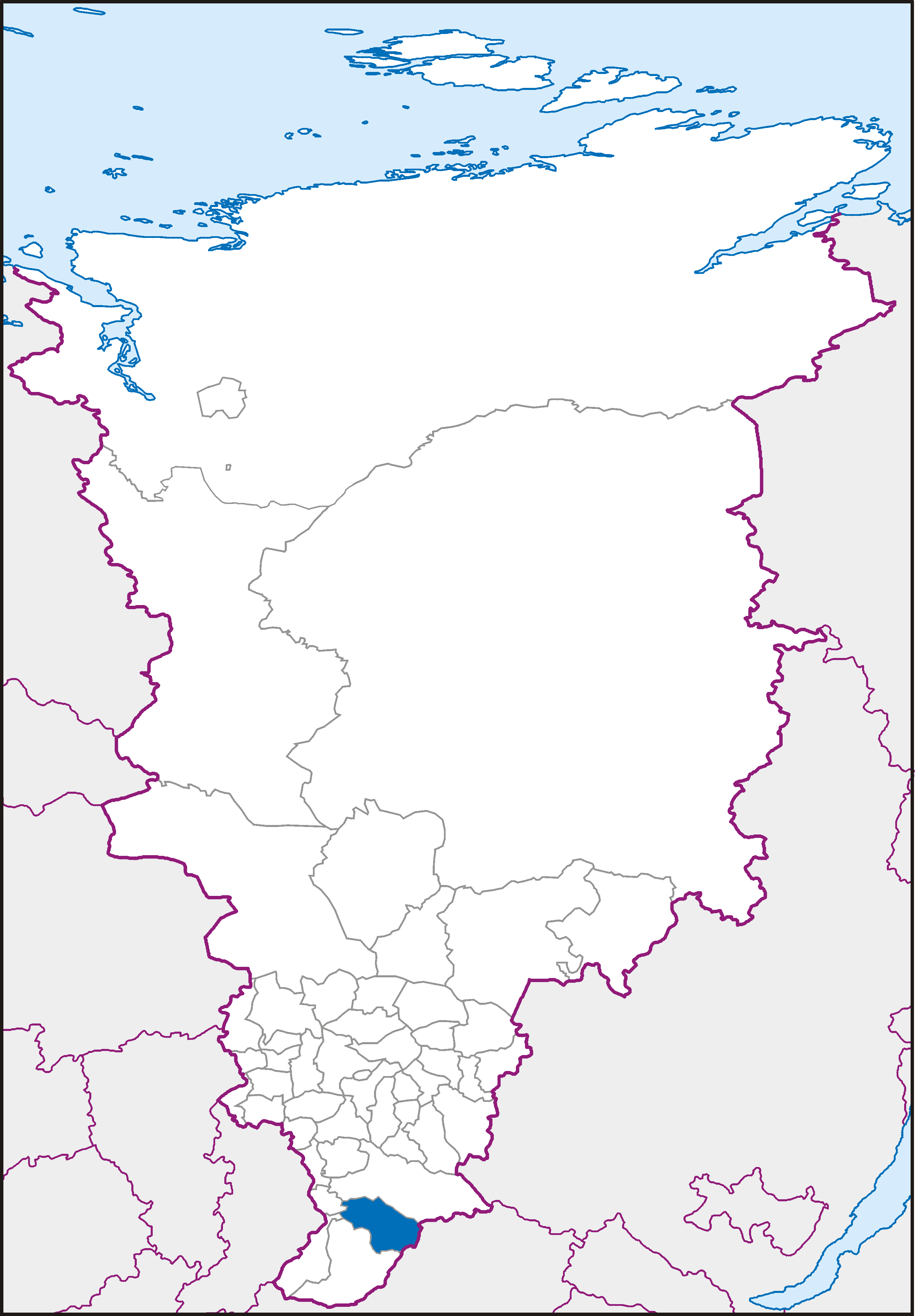 Map of Krasnoyarsk Krai in Albers Equal-Area Conic projection (Central Meridian = 95° E)